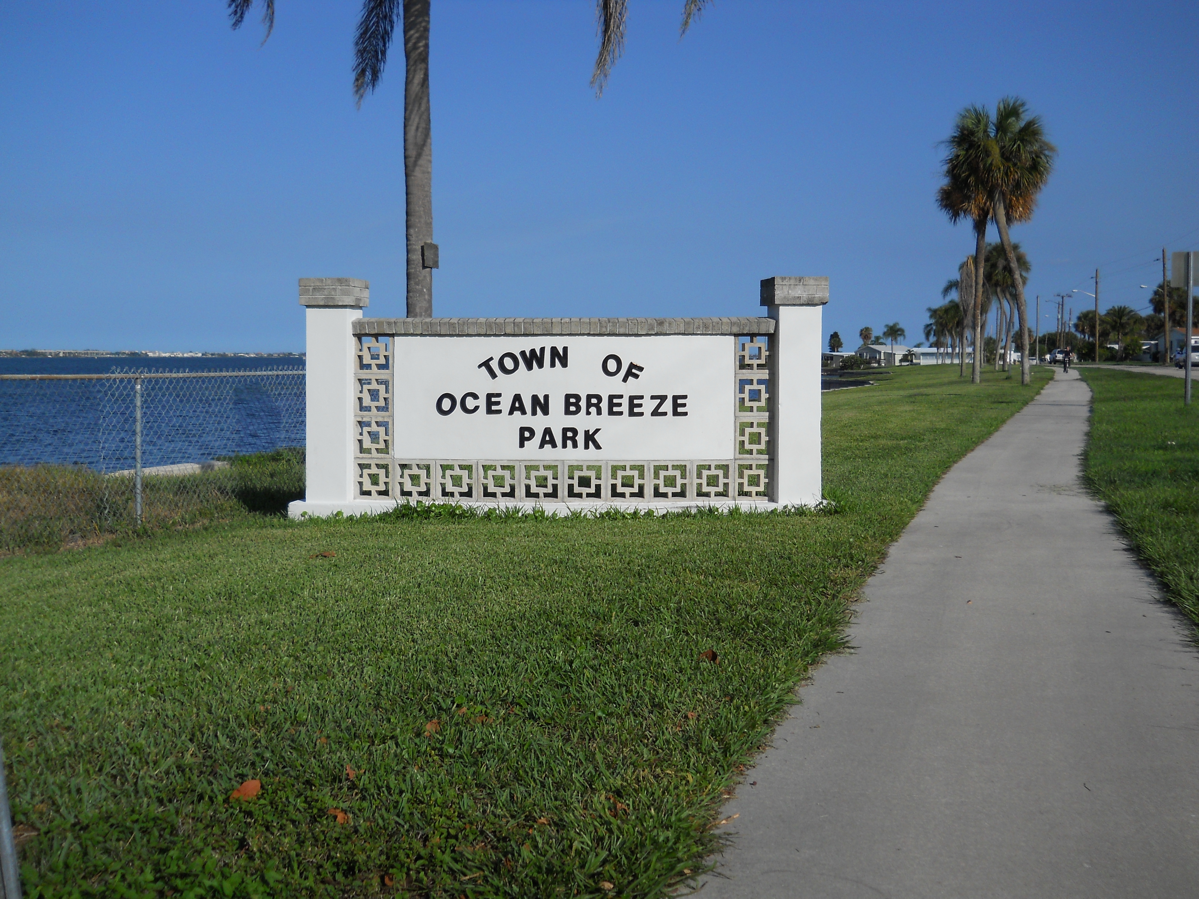 Ocean Breeze Park, Florida, welcome mounment on the northern town line on N.E. Indian River Drive